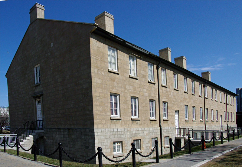 Stanley Barracks at the Canadian National Exhibition taken from the southwest corner.